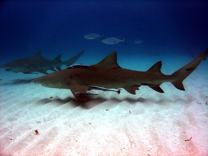 Lemon sharks (Negaprion brevirostris) at West End, Bahamas.